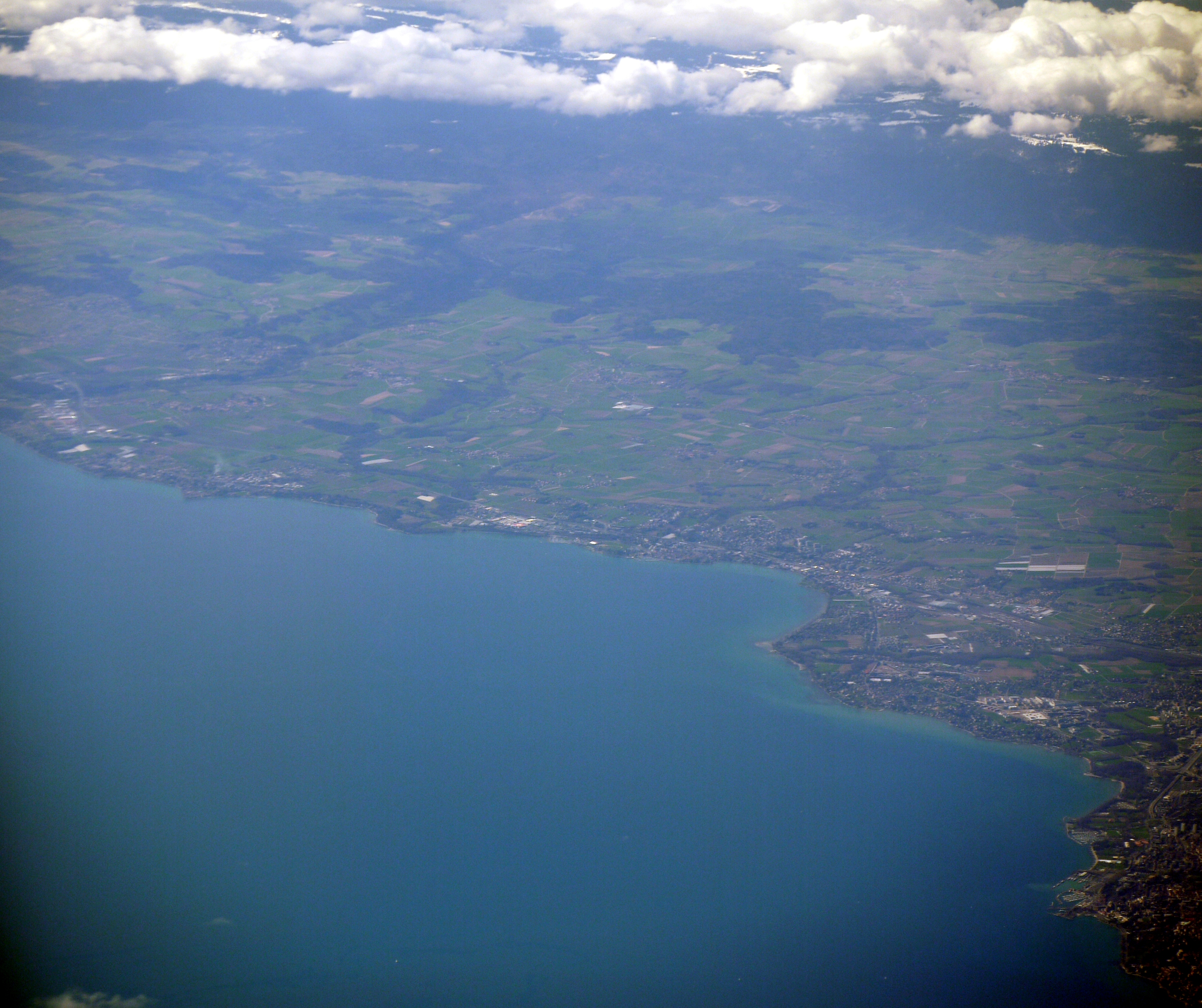 Morges, photograph taken from the sky, on the fly line between Marseille and Stockholm.